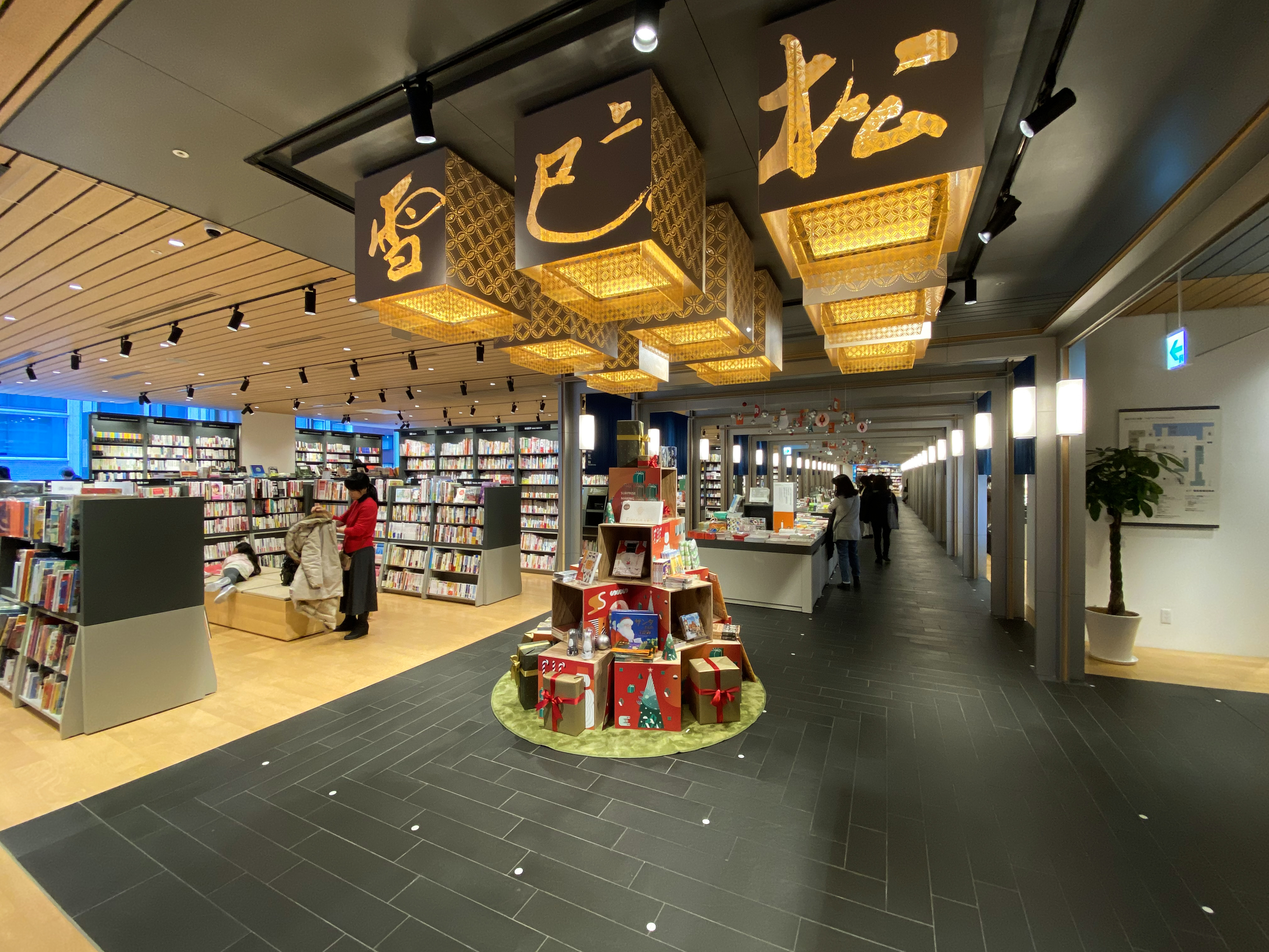 Eslite spectrum Nihonbashi